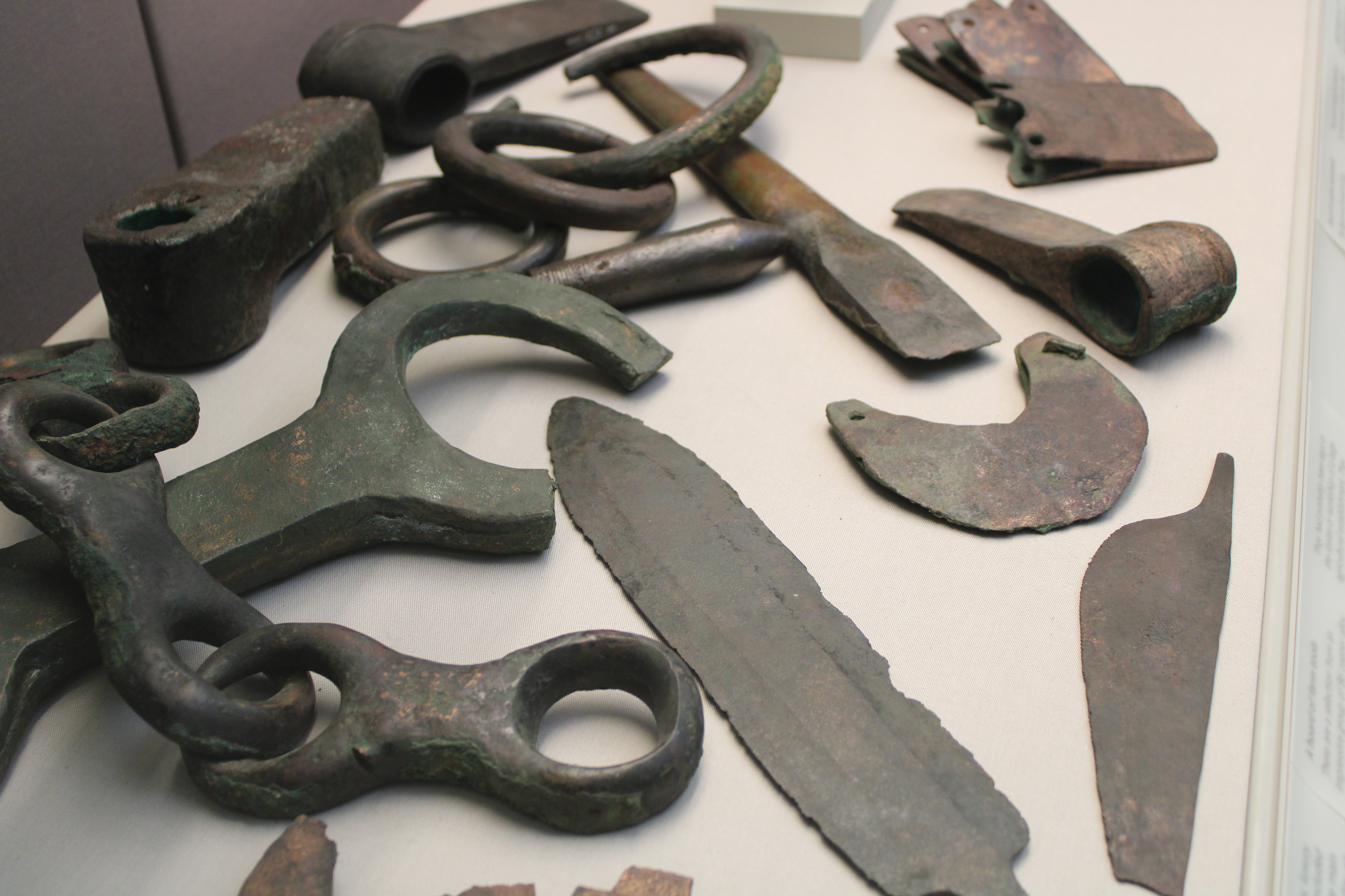 Copper alloy and bronze tools, partly used for farming, from a hoard found at Tell Sifr (ancient Kutalla), Old Babylonian period (c. 1900-1740 BC). They had probably been kept in the stores or workshop of a large agricultural establishment, brought together at the end of the farming season.